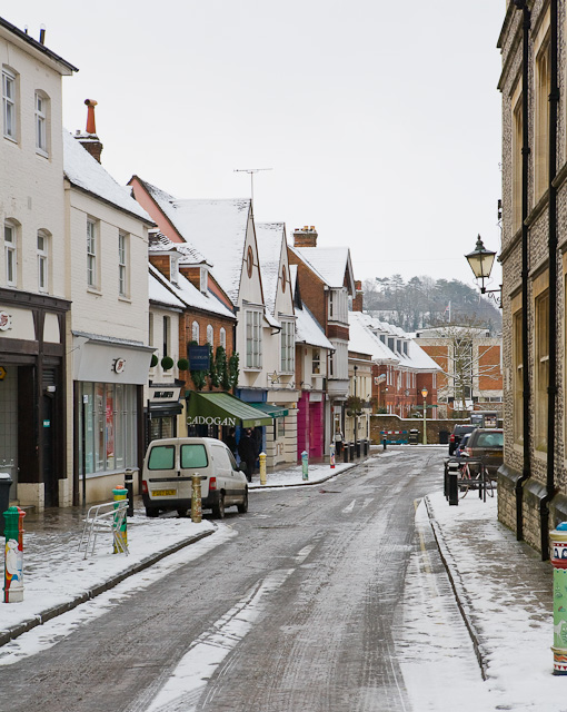 The Square after snow, Winchester The Square is distinguished by the fact that it is actually a linear street, albeit one with artistically painted bollards.